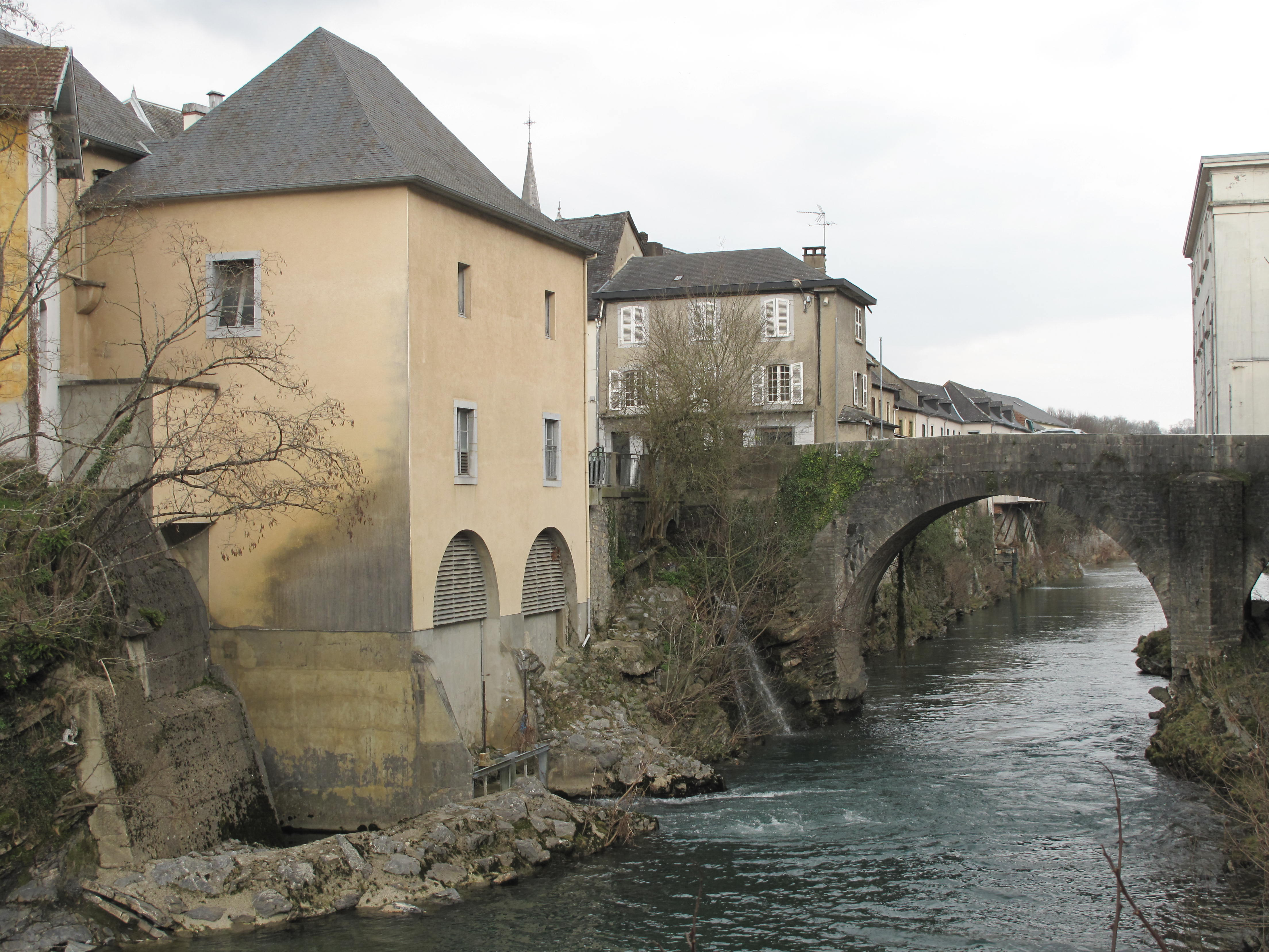 Bridge pont des galeries in Mauléon-Licharre, (Pyrénées-Atlantiques, France). On the left, the former watermill of Montréal, now a micro hydroelectric plant.